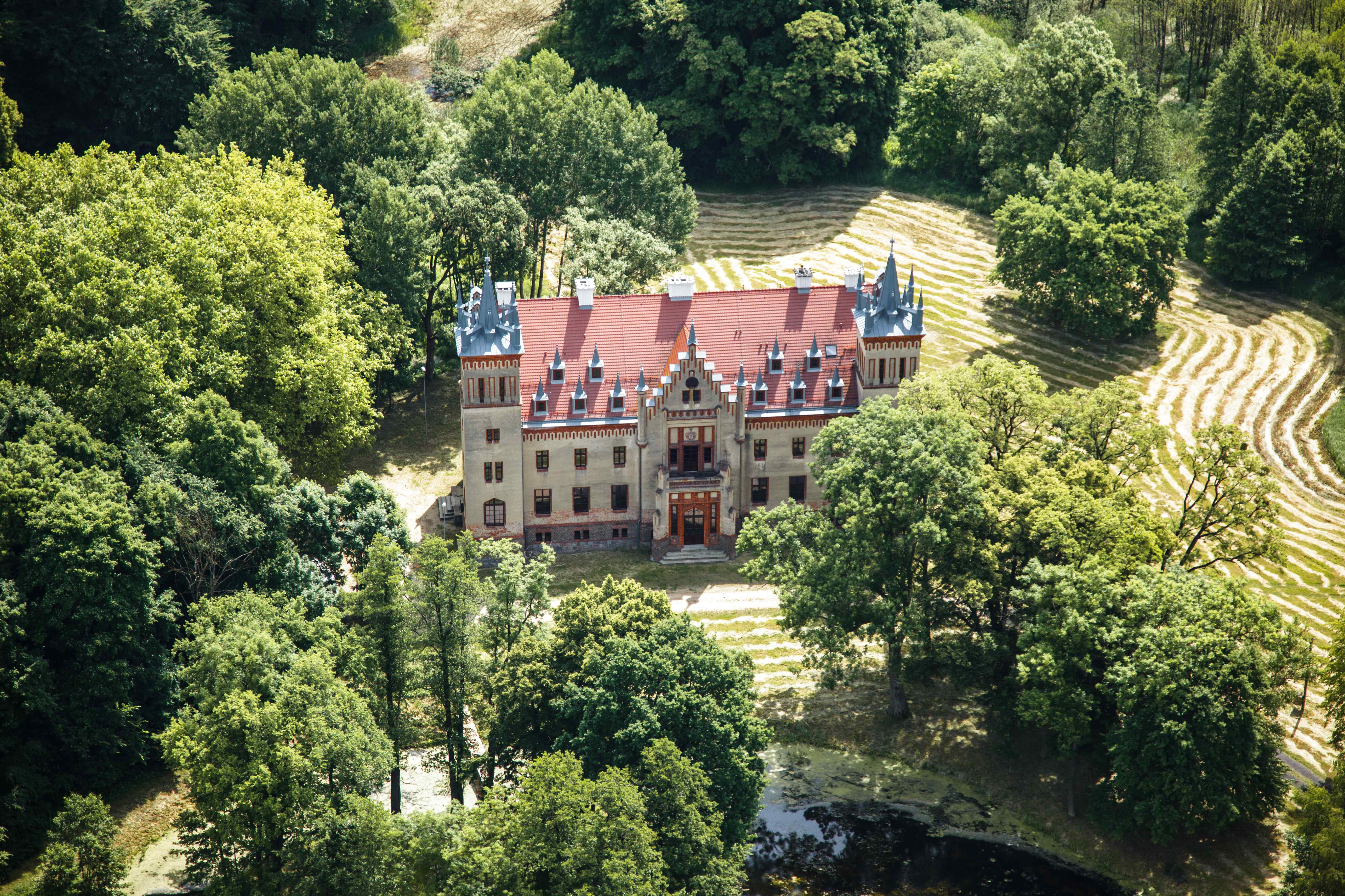 Main building of Rozbitek Estate